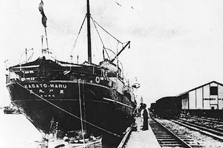 Kasato Maru, the Japanese ship that brought the first immigrants from Japan to Brazil. Here shown moored at the port of Santos (São Paulo), 1908.